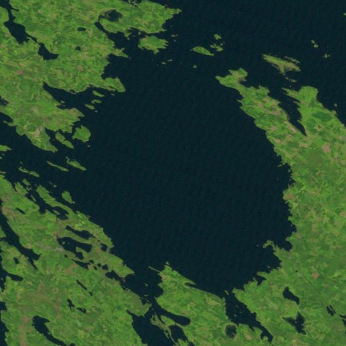 Paasselkä impact crater, part of Lake Orivesi in the Saimaa lake system.